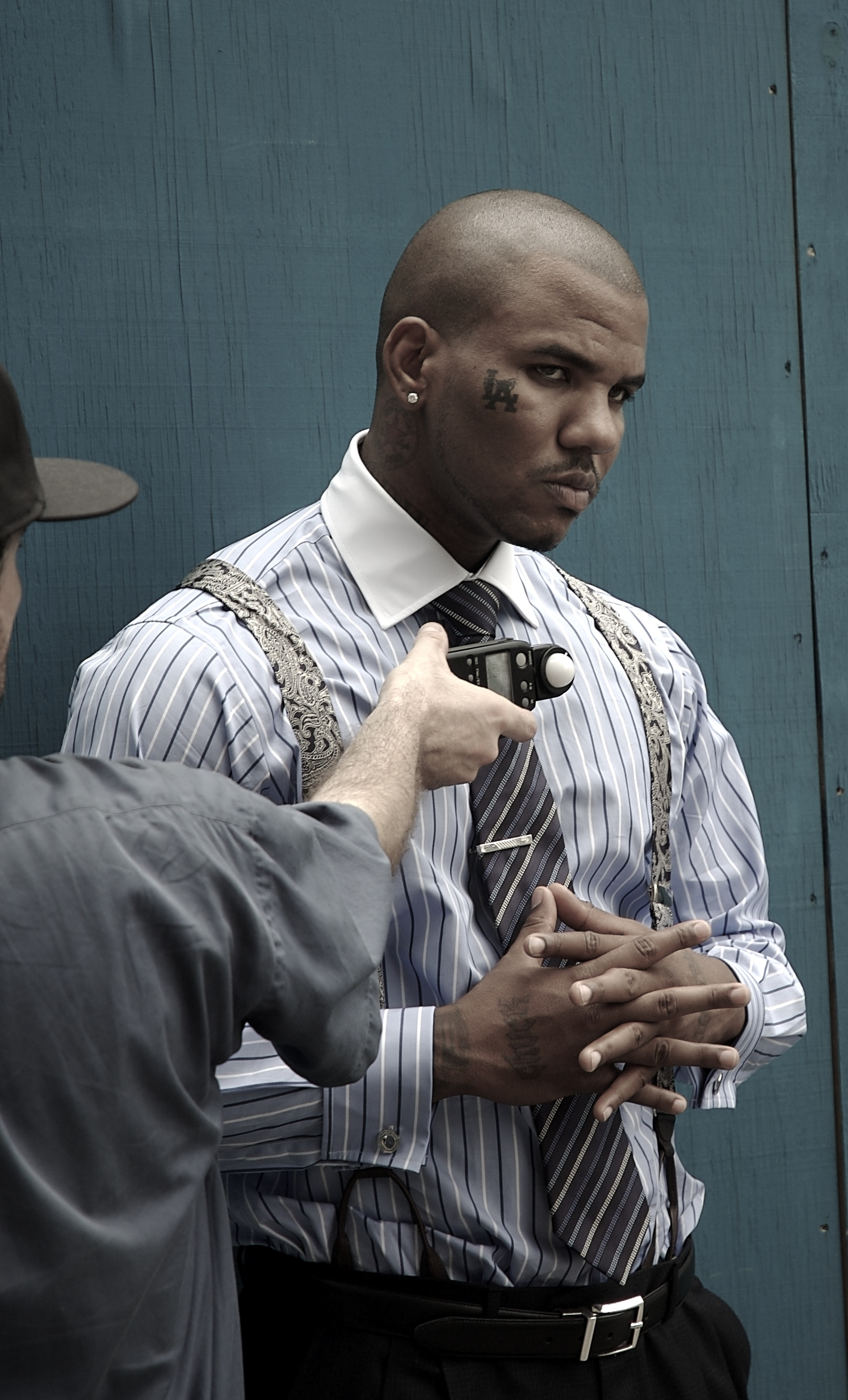 The Game in Wall Street, Manhattan, New York City.The Real Black Wall Street photo shoot, The Game